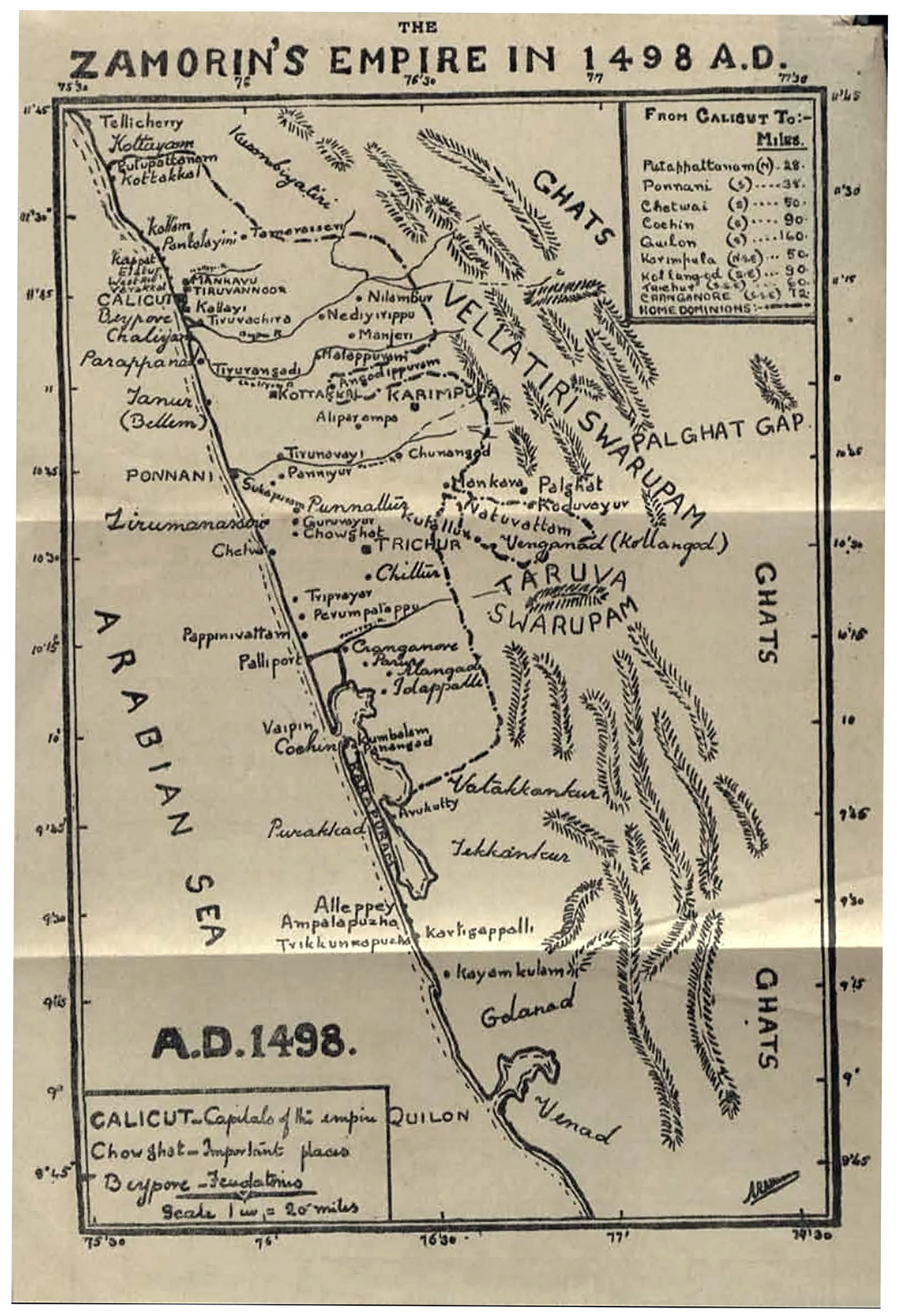 Map_of_Samoothiris_kingdom